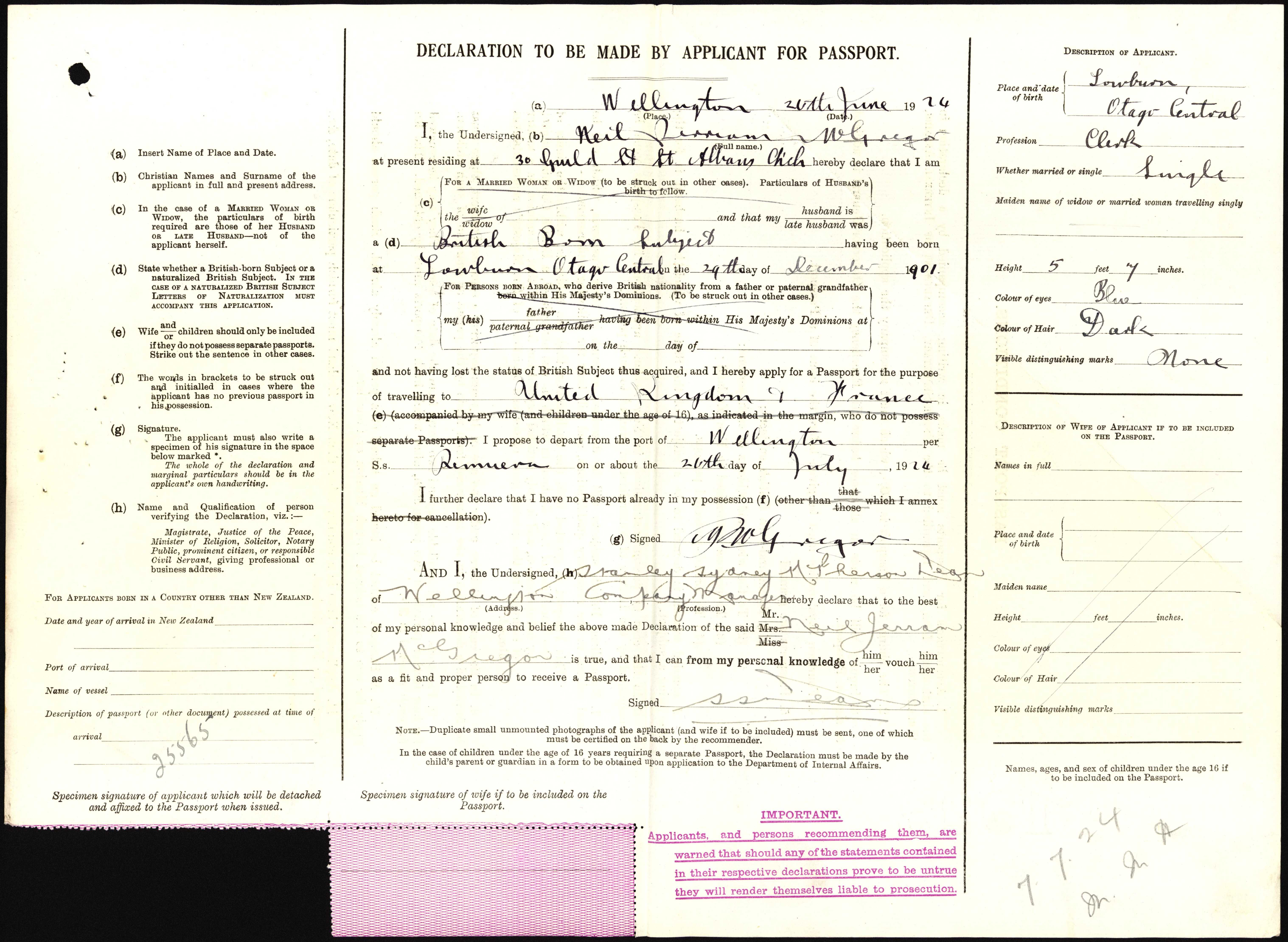 ACGO 8333 IA1 1349 / 15/11/17721 Neil McGregor Passport application (1924)